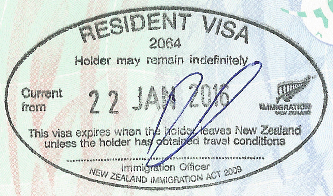 A New Zealand permanent resident visa stamp granted on arrival under Trans-Tasman Travel Arrangement on an Australian travel document. 中文（台灣）: 根據環塔斯曼旅遊協議在澳洲旅行證件上簽發的紐西蘭落地永久簽章。